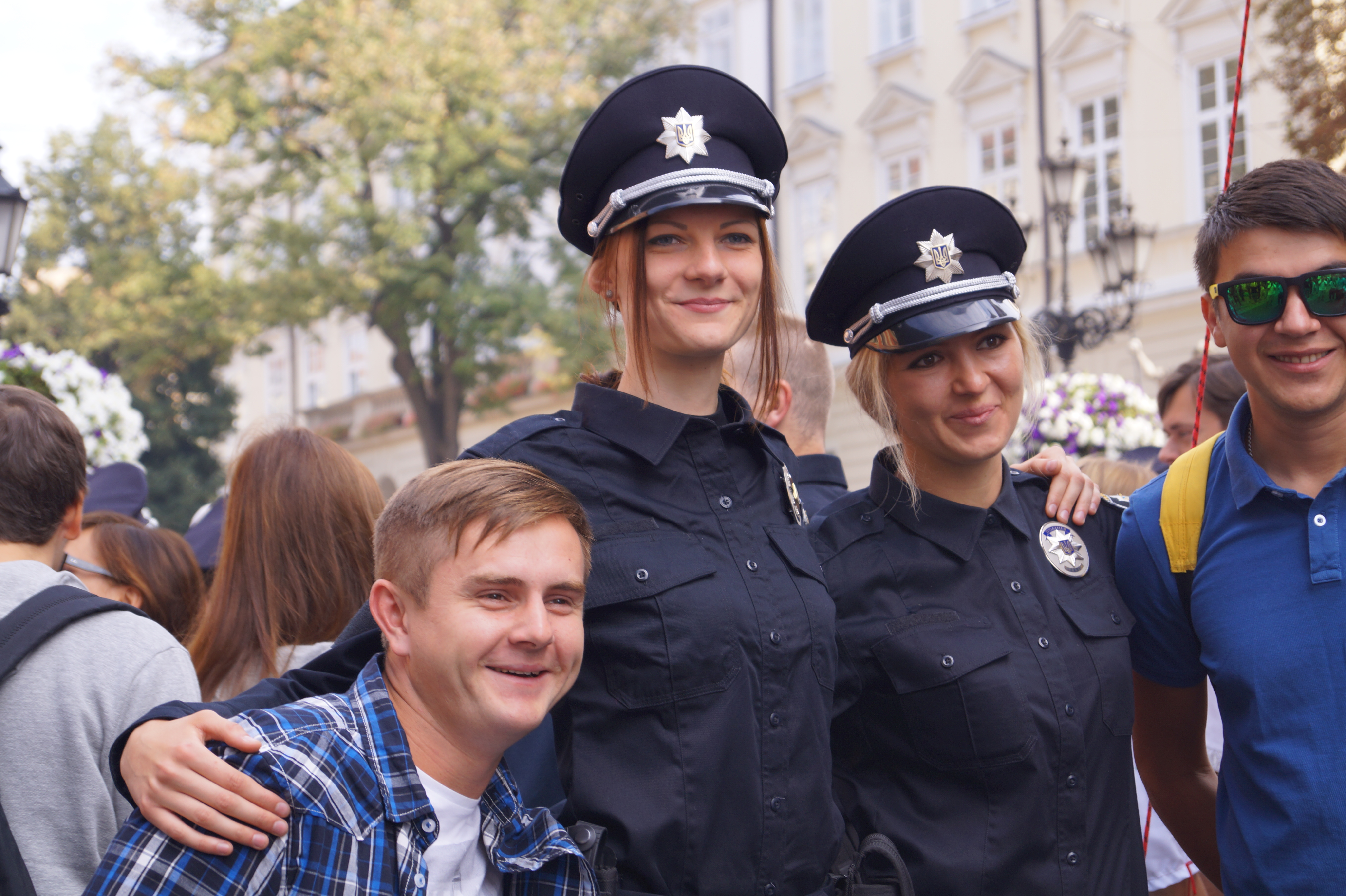 Photos from the launch of new Lviv Police